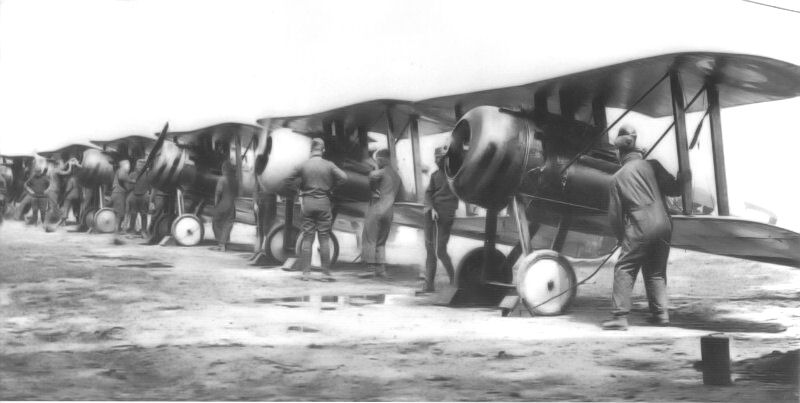 147th Aero Squadron Nieuport 28s, France, 1918